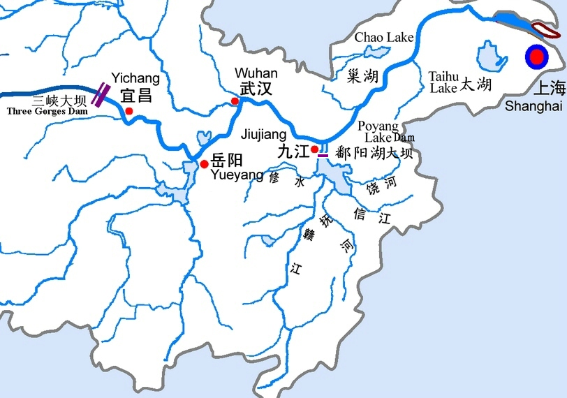 Midstream and Downstream Drainage Map of Yangtze River, Poayang Lake Dam's Location